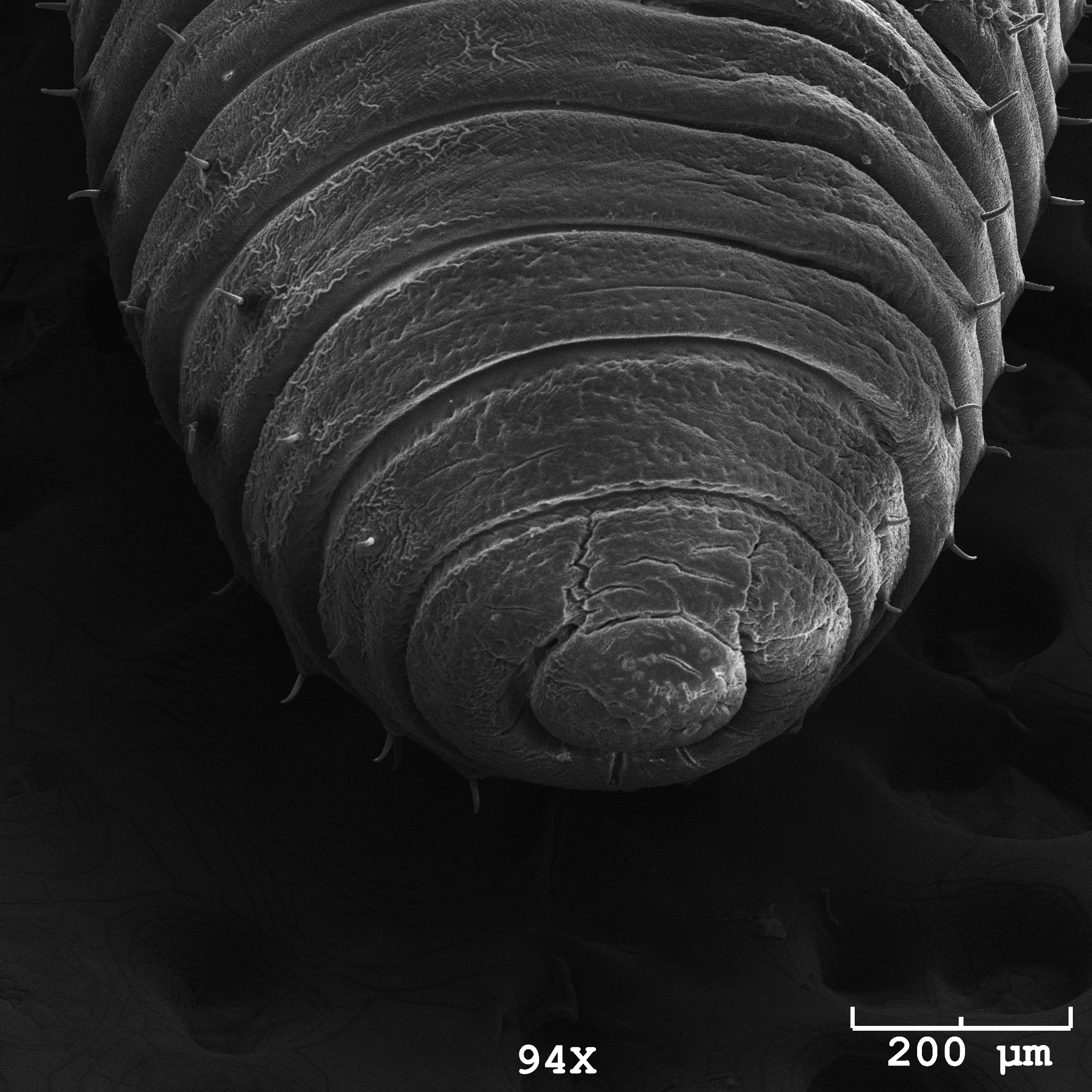 Scanning electron micrograph of the dorsal side of a newly hatched European nightcrawler (Eisenia hortensis). Clearly depicted in this photo are the earthworm's first 5 segments, mouth (the half-moon or U-shaped space at the tip of the first segment), prostomium (the dome of tissue defining the interior portion of the U-shaped mouth), and the setea (the hair-like structures made out of chitin which found on the lateral and ventral sides starting with the 2nd segment). On the prostomium, many small circular structures called epidermal sensory organs are visible. Photo by Hannah G Watson, Andrew T Ashchi, Glen S Marrs, & Cecil J Saunders of the Wake Forest University Department of Biology ( CC BY 4.0.